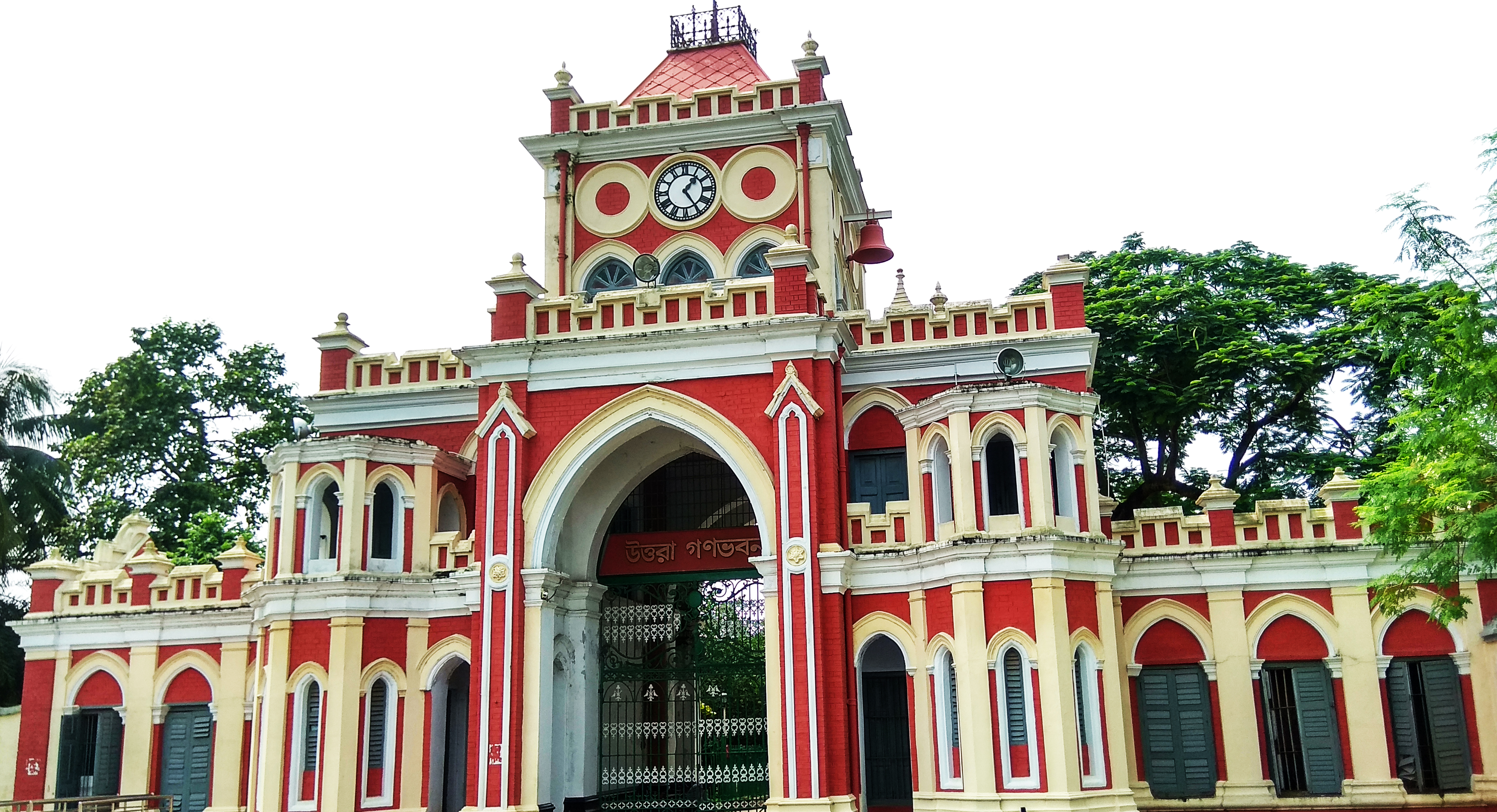 The Uttara Ganabhaban (meaning Northern People's House) is an 18th-century (1734) a royal palace also known as Jaminder country house and retreat, it was made by Raja Doyaram who was the Dewan (like minister) of Rani Bhavanee